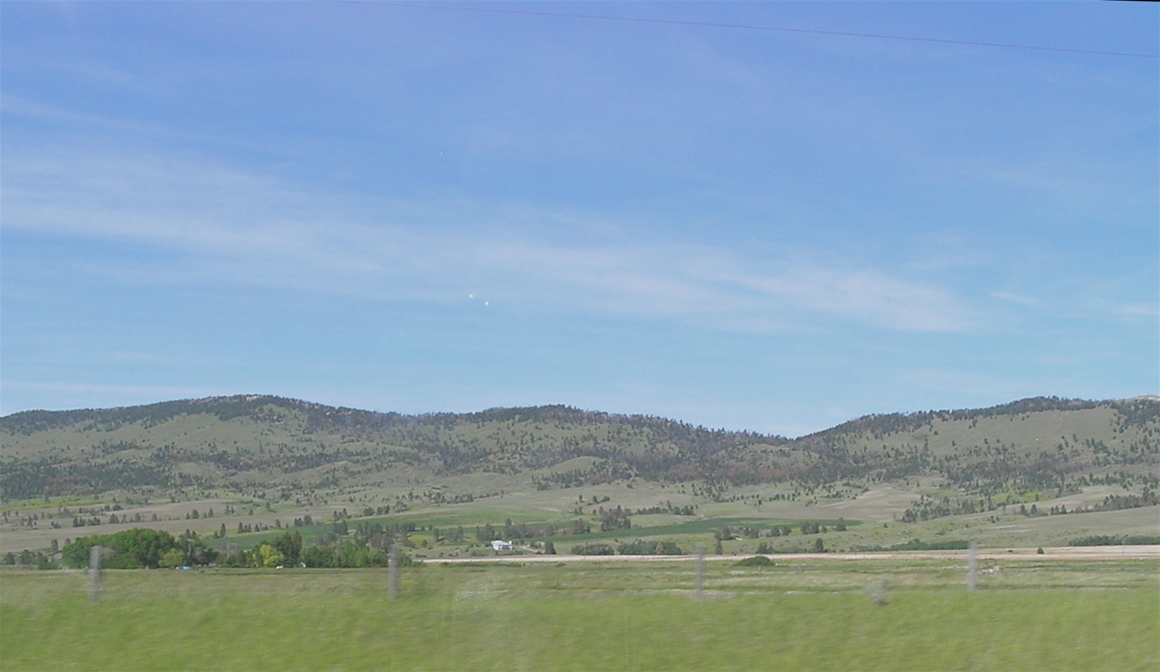 West side of the Spokane Bench, an offshoot of the Big Belt Mountains, as seen from near East Helena, MT